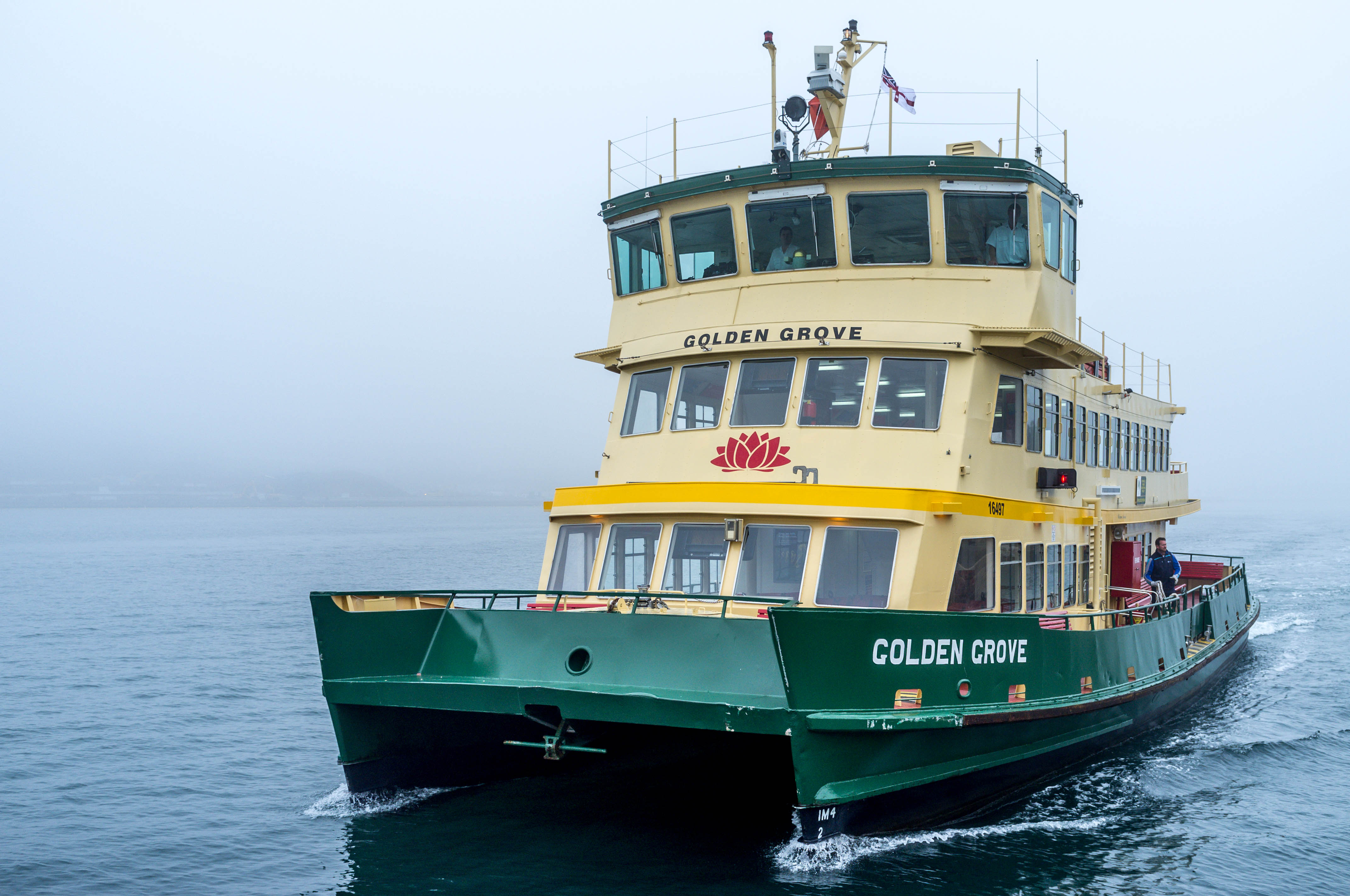 Sydney Ferry Golden Grove emerges from the fog in Port Jackson